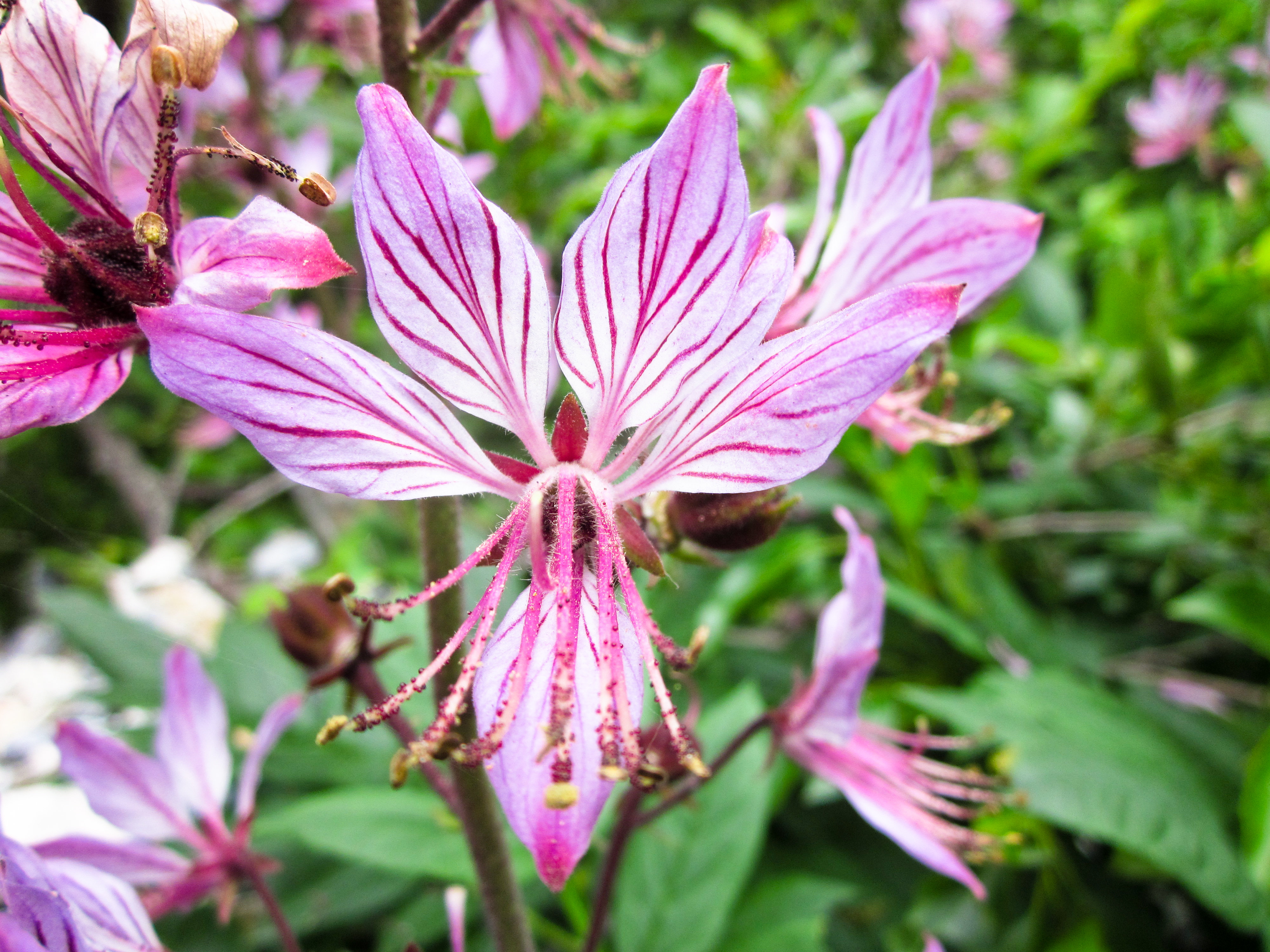 Dictamnus albus by the side of the road between Khanka Lake and Lesser Khanka Lake